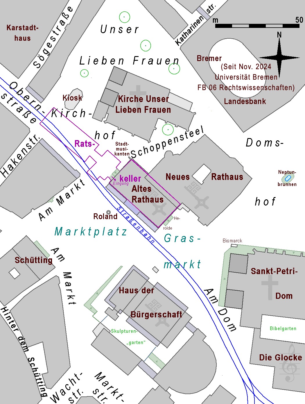 Localizations of Bremen's historical townhall, its early 20th century enlargement, the minicipal wine cellar, the parliament of the state of Bremen and some buildings around